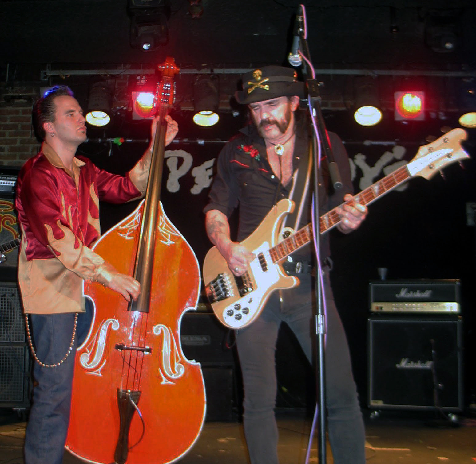 Стијеповић (лево) са Леми Килмистером на концерту у Кливленду 2007. године